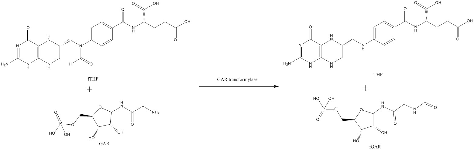 Overall Reaction of GAR transformylase